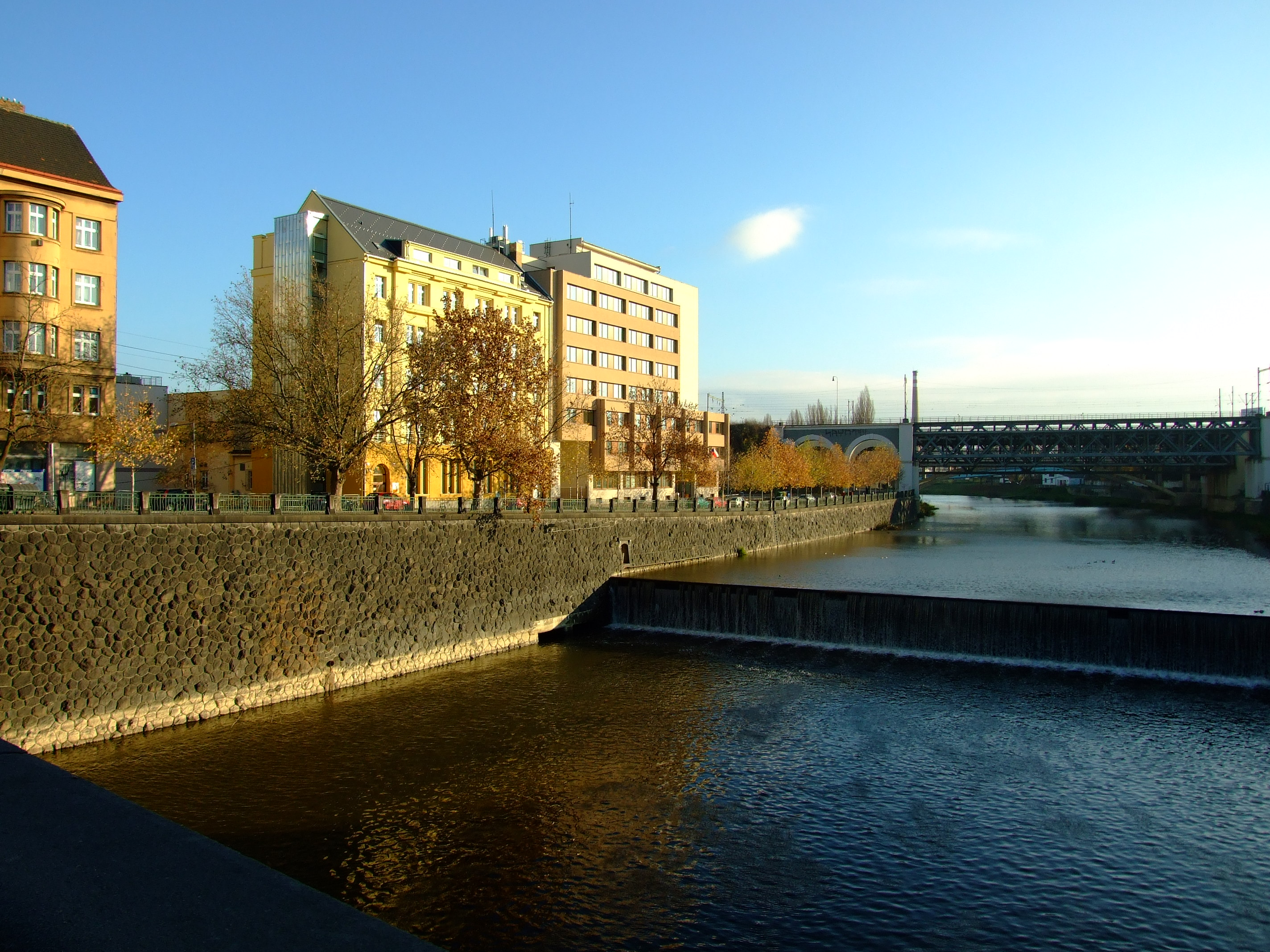 Pilsen, CZ